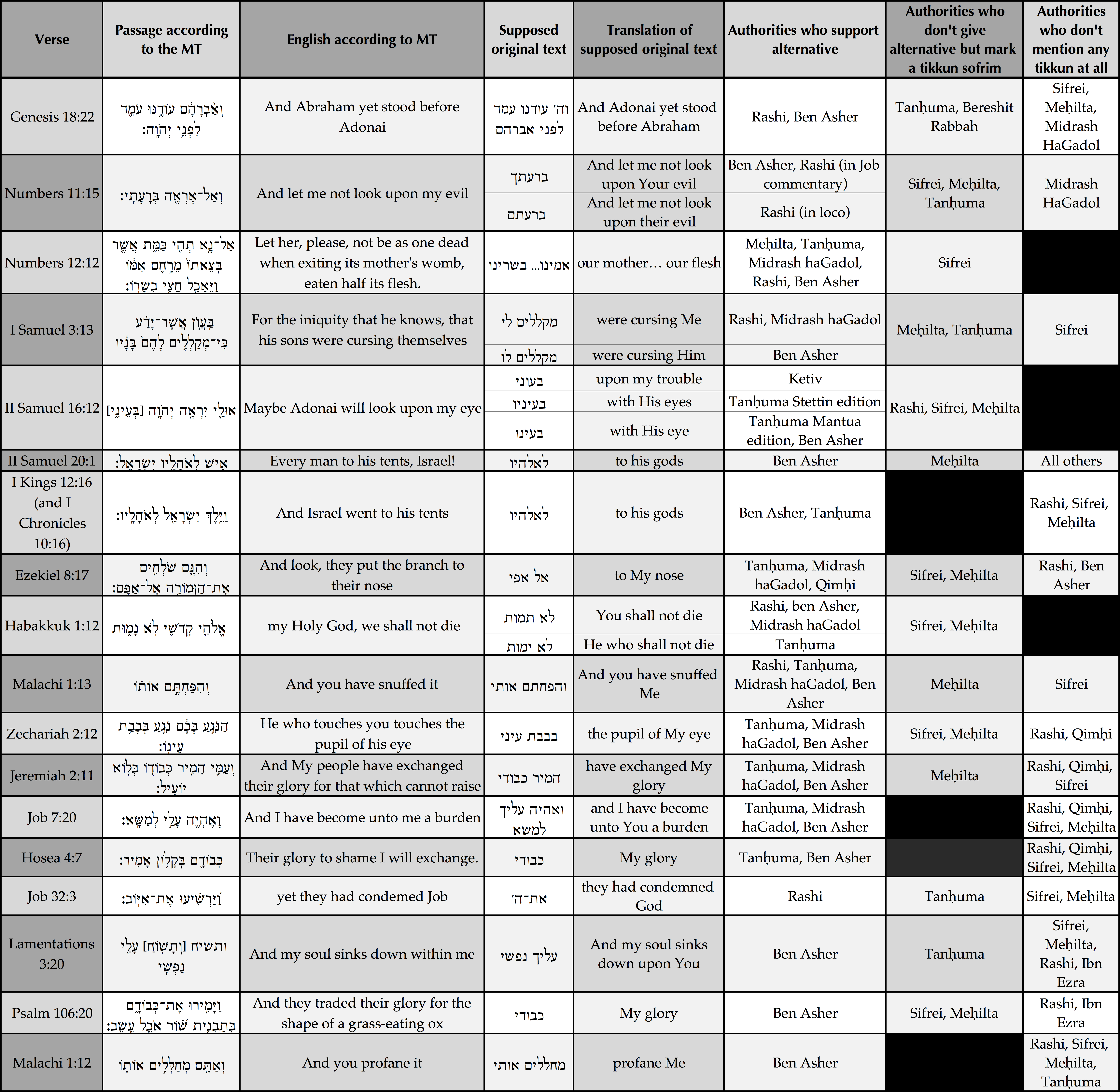 A list of 17 traditional "tiqqunei sofrim" scribal euphemisms, including the Masoretic Text, a translation (made by the creator), the suggested "original texts," and lists of rabbinic and Masoretic sources that confirm or deny each case. Information based on the public domain article W. Emery Barnes, Ancient Corrections In the Text of the Old Testament (Tikkun Soopherim), JTS, 1 (1900), pp 387–414.